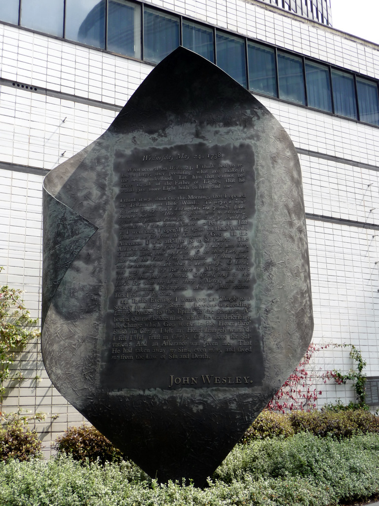 Plaque regarding John Wesley, Museum of London